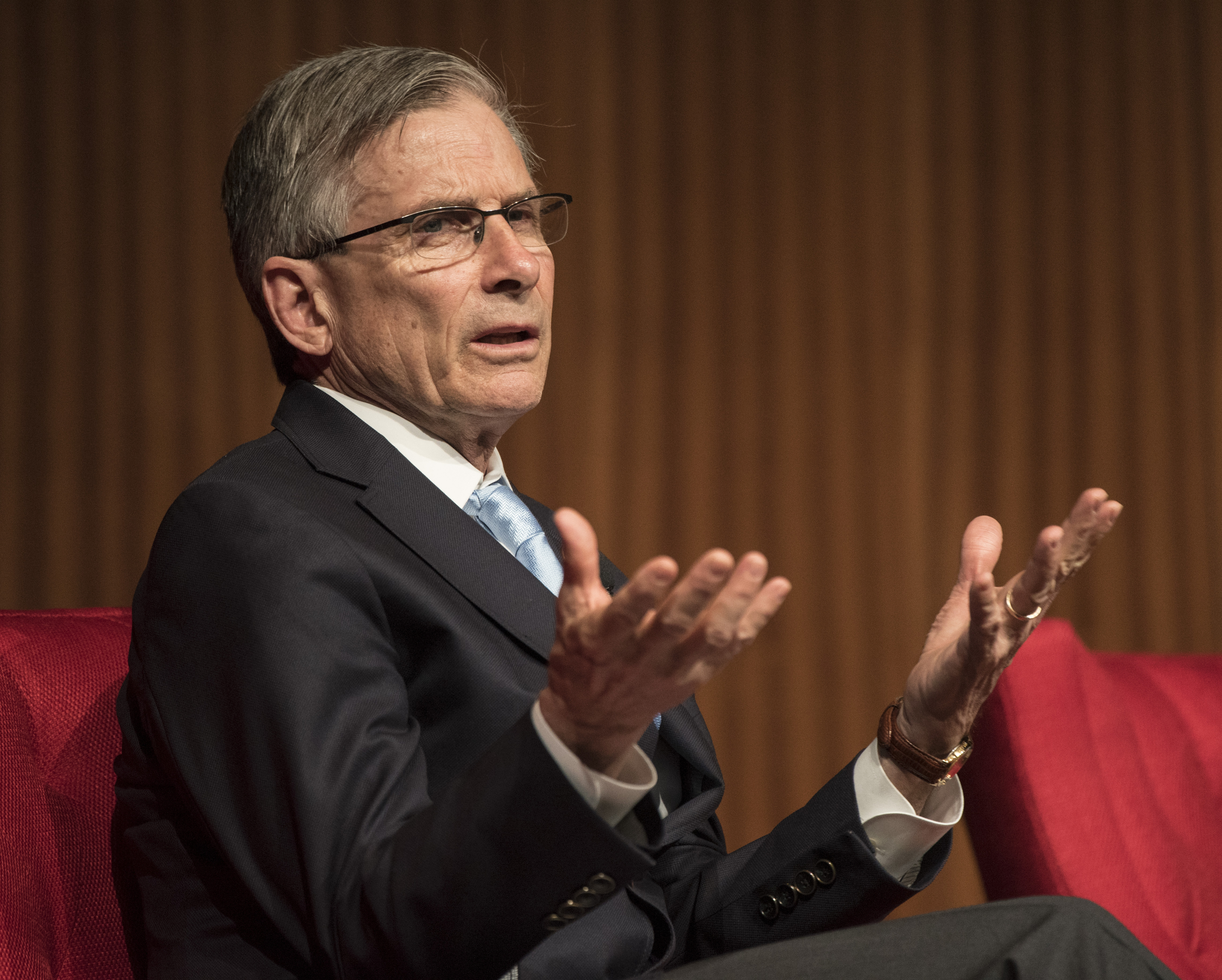 William Adams, chairman of the National Endowment for the Humanities and a Vietnam veteran, moderates a panel discussion, “The Troops: A View from the Front Lines” on Thursday, April 28, 2016, at the LBJ Presidential Library. The panel discussion was part of the LBJ library’s three-day Vietnam War Summit. LBJ Library photo by Jay Godwin 04/28/2016